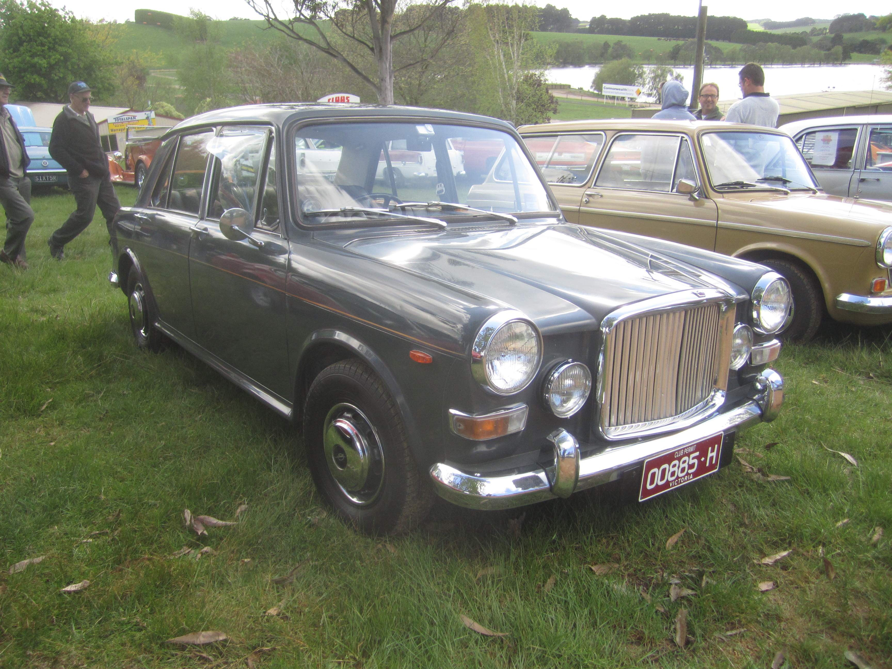 The upmarket 1100 from all the other brands. ie; Austin, Morris, Wolseley, Riley, MG. Engine; available in 1100 or 1300 4 cyl